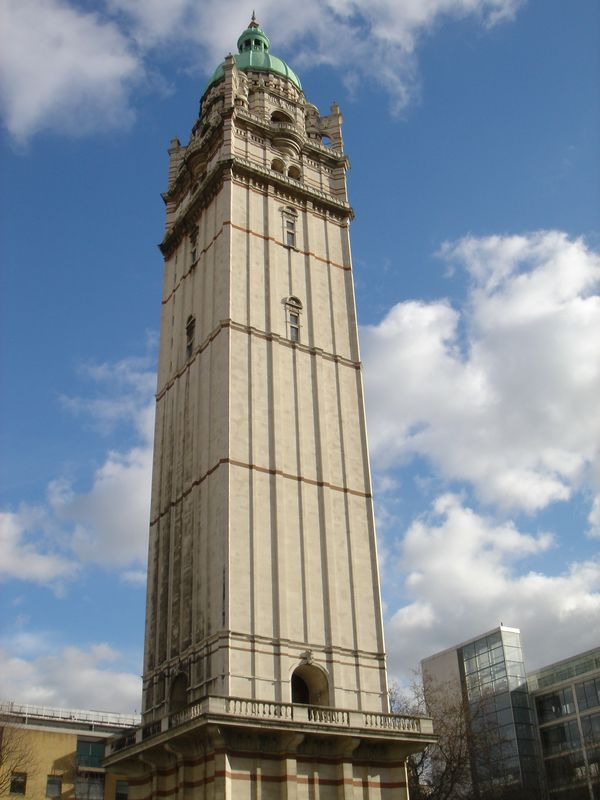 A photo of the Queen's Tower, Imperial College London